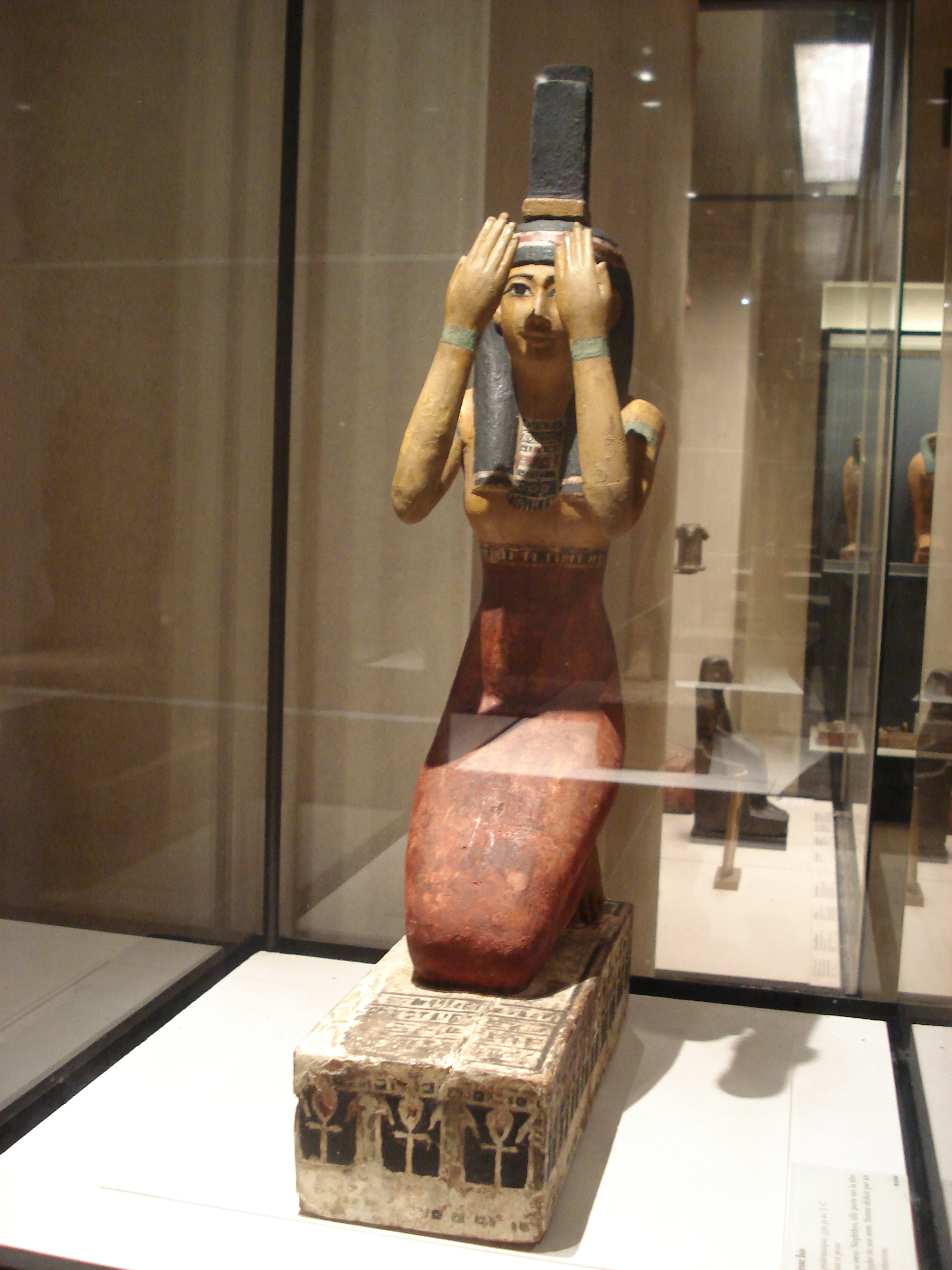 Louvre Museum